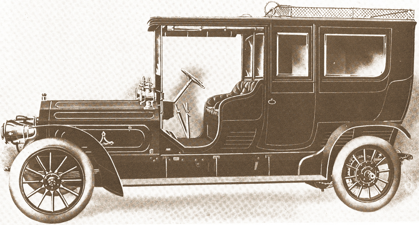 1906 Bell 24 hp